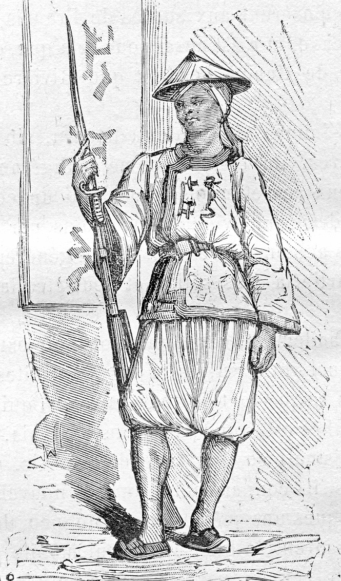 Vietnamese soldier, Tonkin campaign